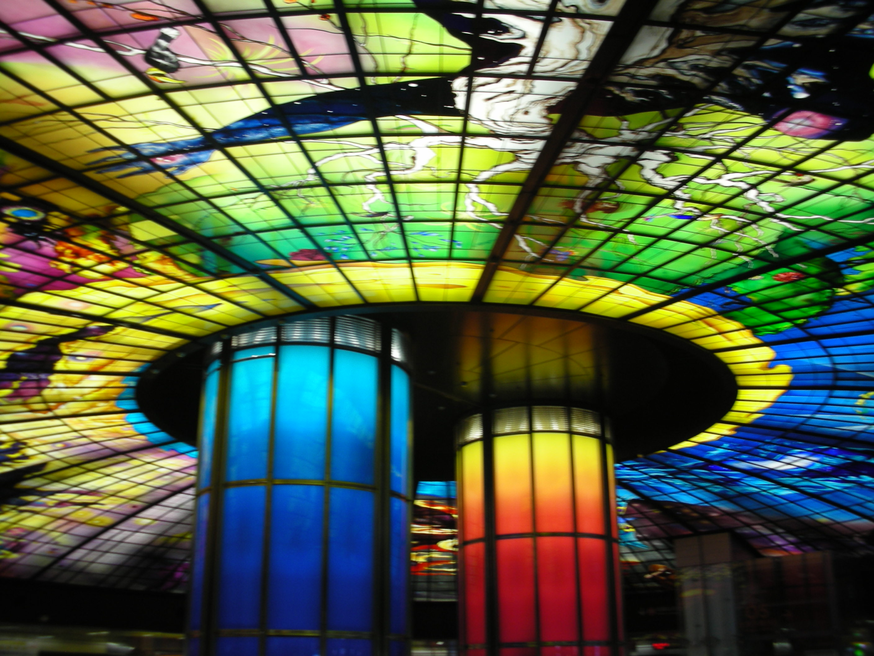 高雄捷運-美麗島站 Kaohsiung MRT- Formosa Boulevard Station